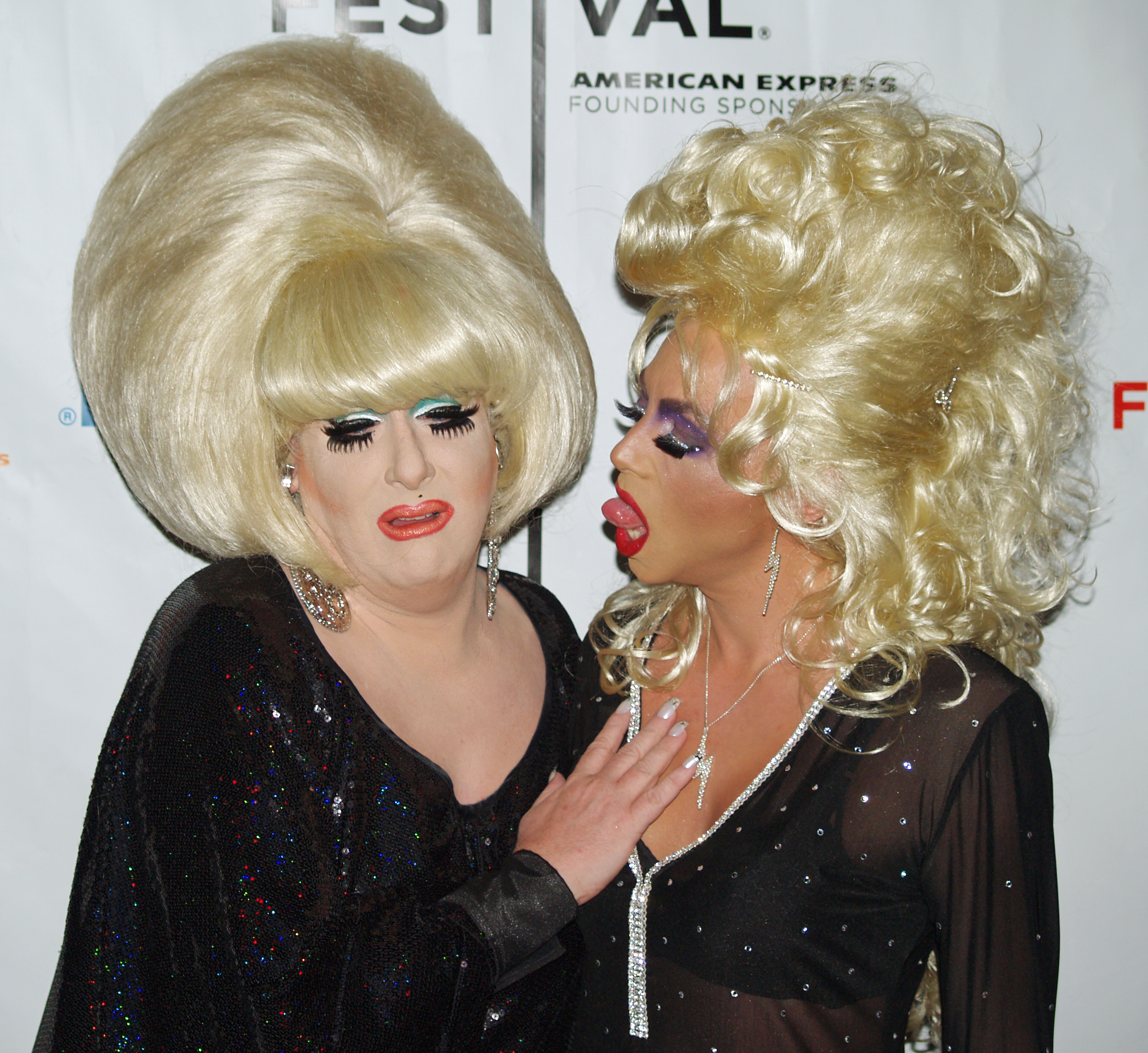 Lady Bunny and Sherry Vine at the premiere of Squeezebox! at the 2008 Tribeca Film Festival.